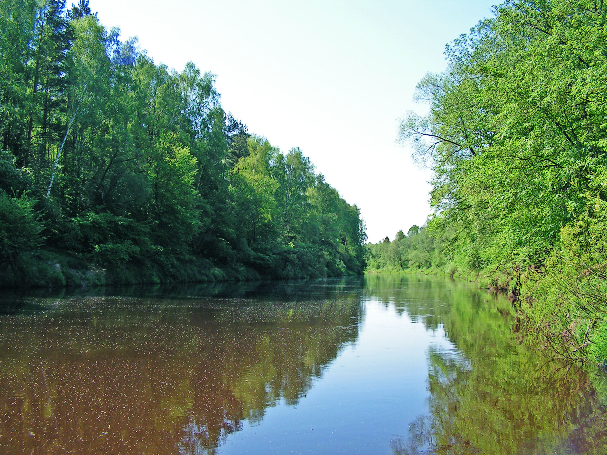 Luchosa River